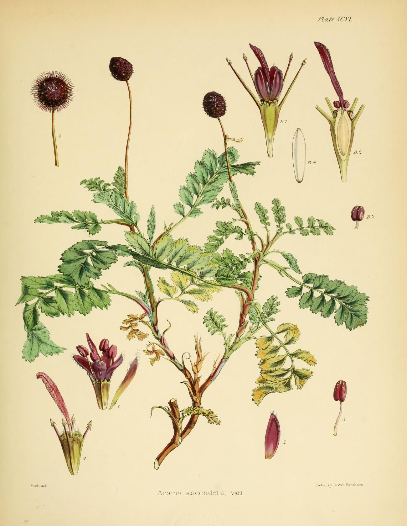 jpg of Plate XCVI of Hooker's Flora Antarctica. Acæna ascendens Vahl